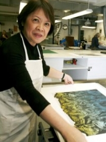 Photograph of Lenore RS Lim in her art studio.